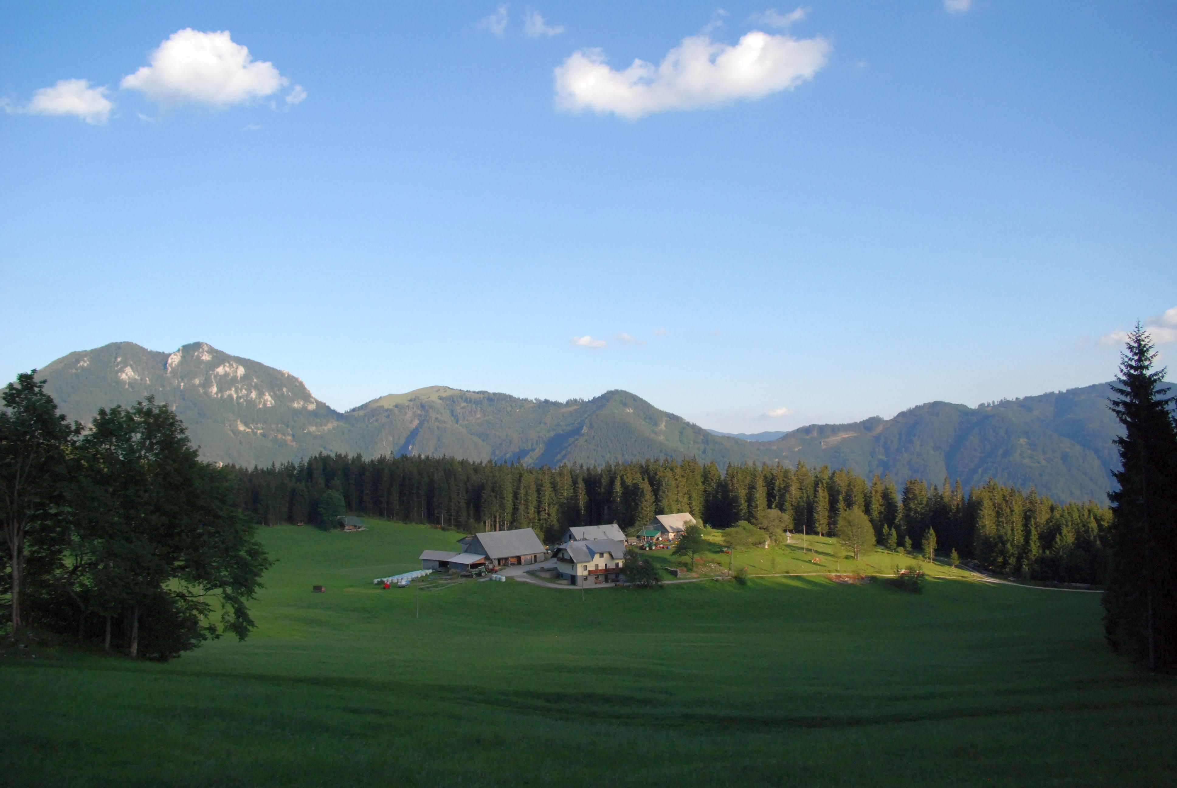 Planinšek Homestead, the highest lying farm on the Dleskovec Plateau. Podveža (Municipality of Luče), Slovenia. In the background to the left, Mount Rogatec.[2]